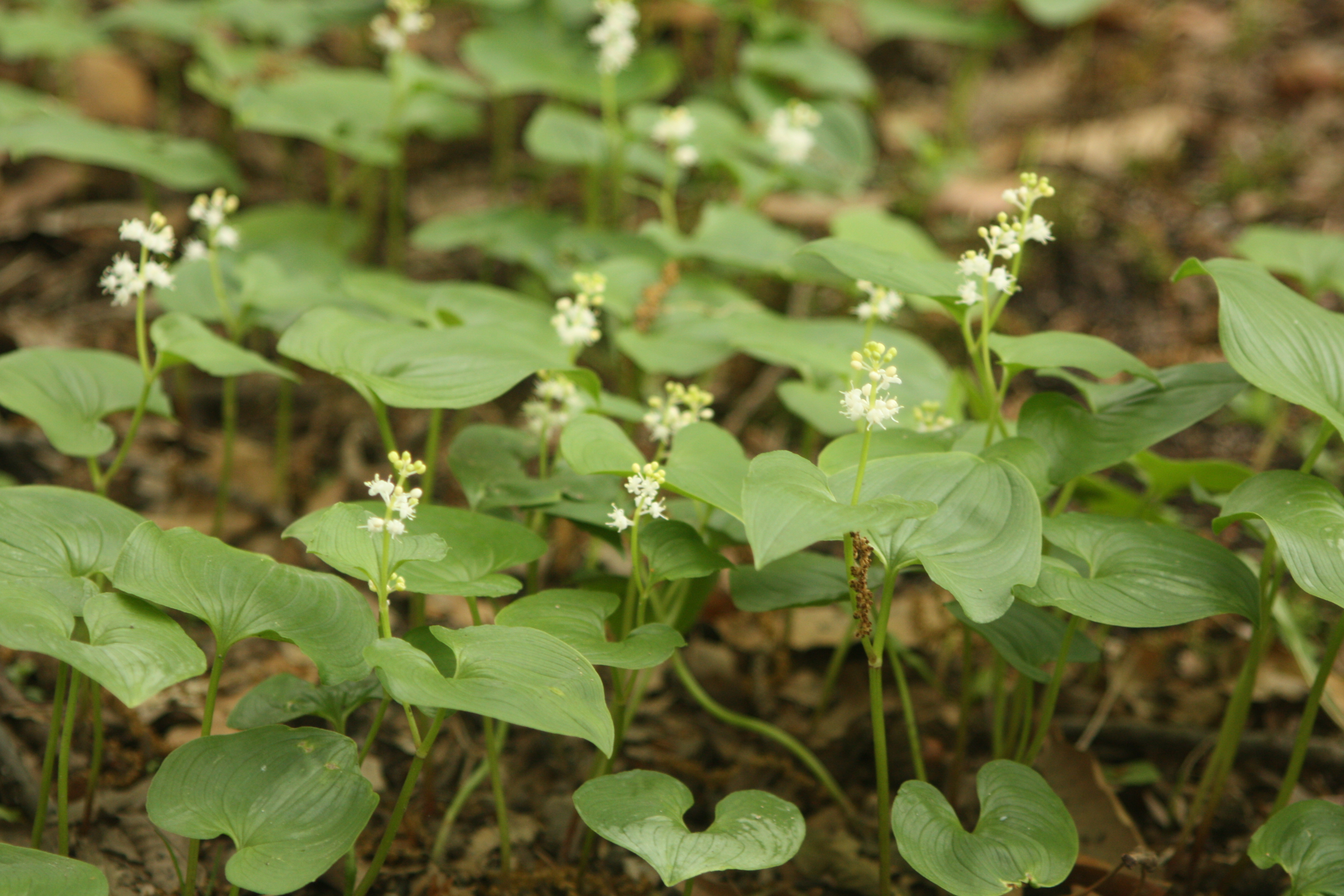 Maianthemum bifolium in Seoul, Korea